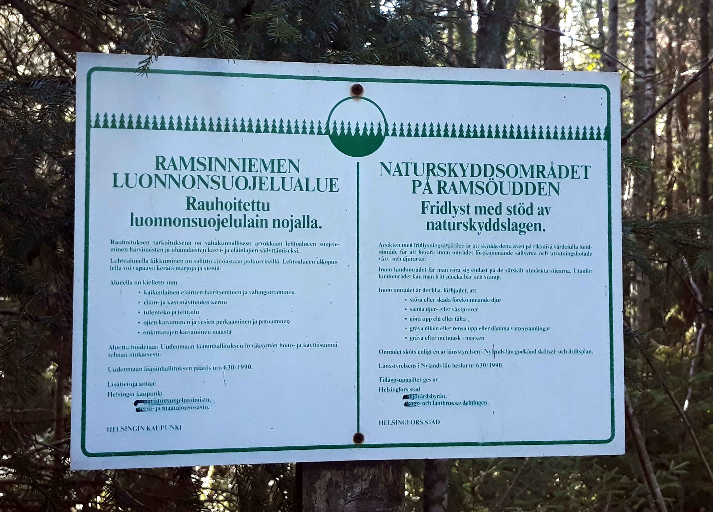 Sign at Ramsinniemi nature conservation area in Meri-Rastila, Helsinki.